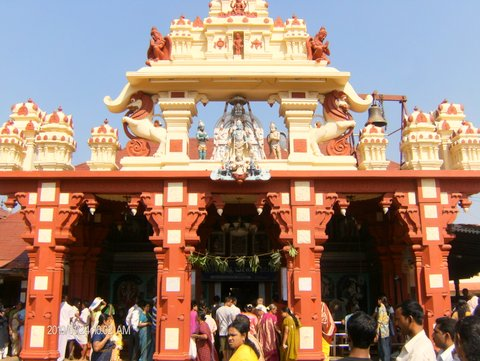 Front side of temple